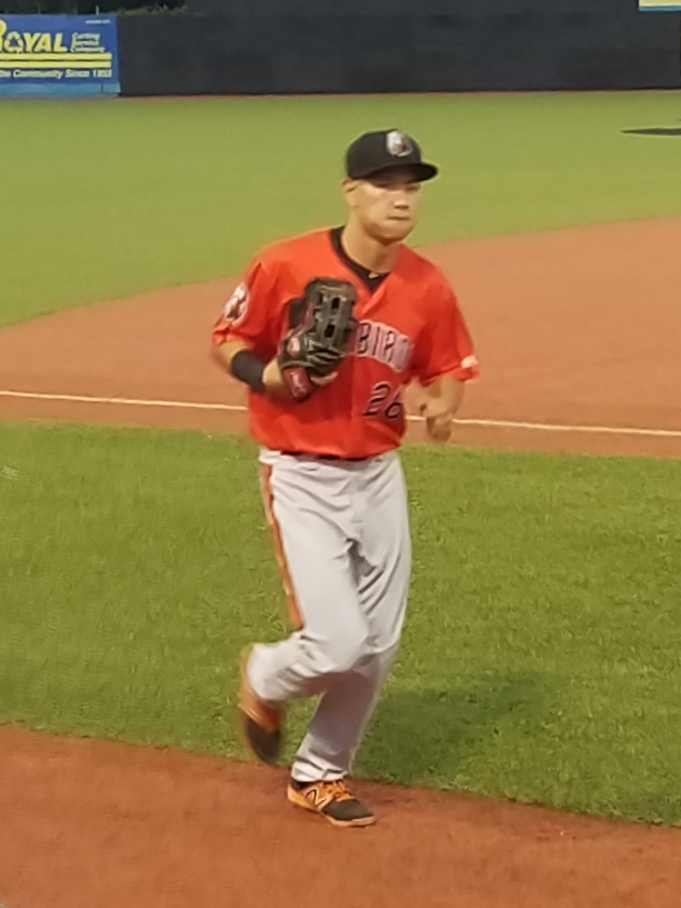 Guiyuan Xu playing with the Aberdeen IronBirds in September 2018 at Dutchess Stadium in Fishkill (town), New York